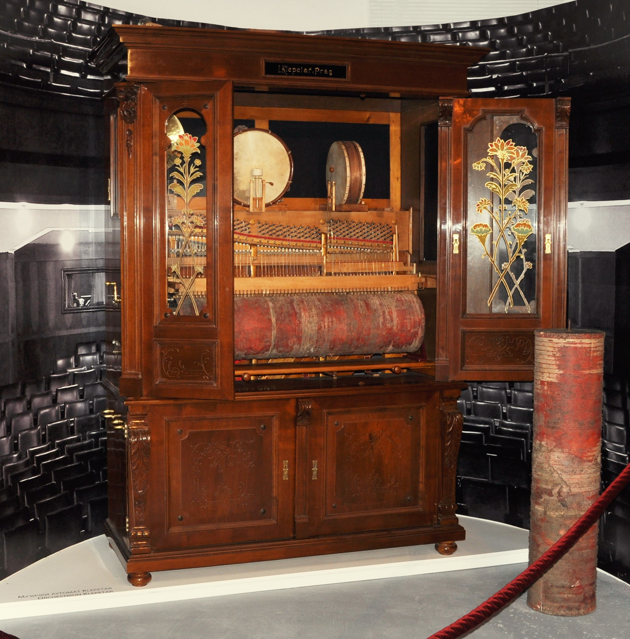 Orchestrion. It is located in Museum of Science and Technology Belgrade.